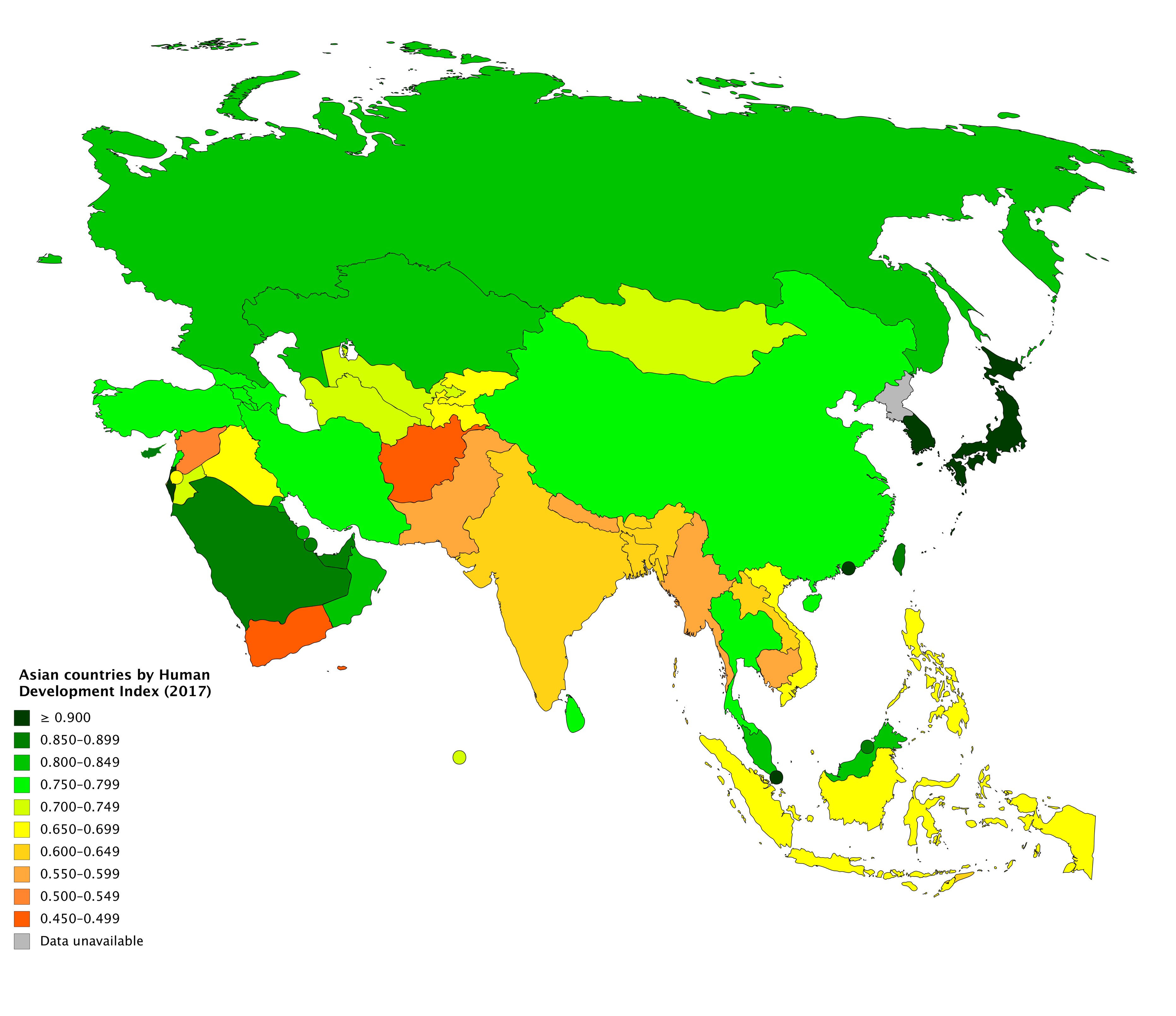 A choropleth map showing countries in Asia by Human Development Index in 2017, based on data from the United Nations Development Programme. Macau's HDI is based on 2016 data, and Taiwan's HDI is based on 2015 data. Both HDI are calculated by their respective governments.